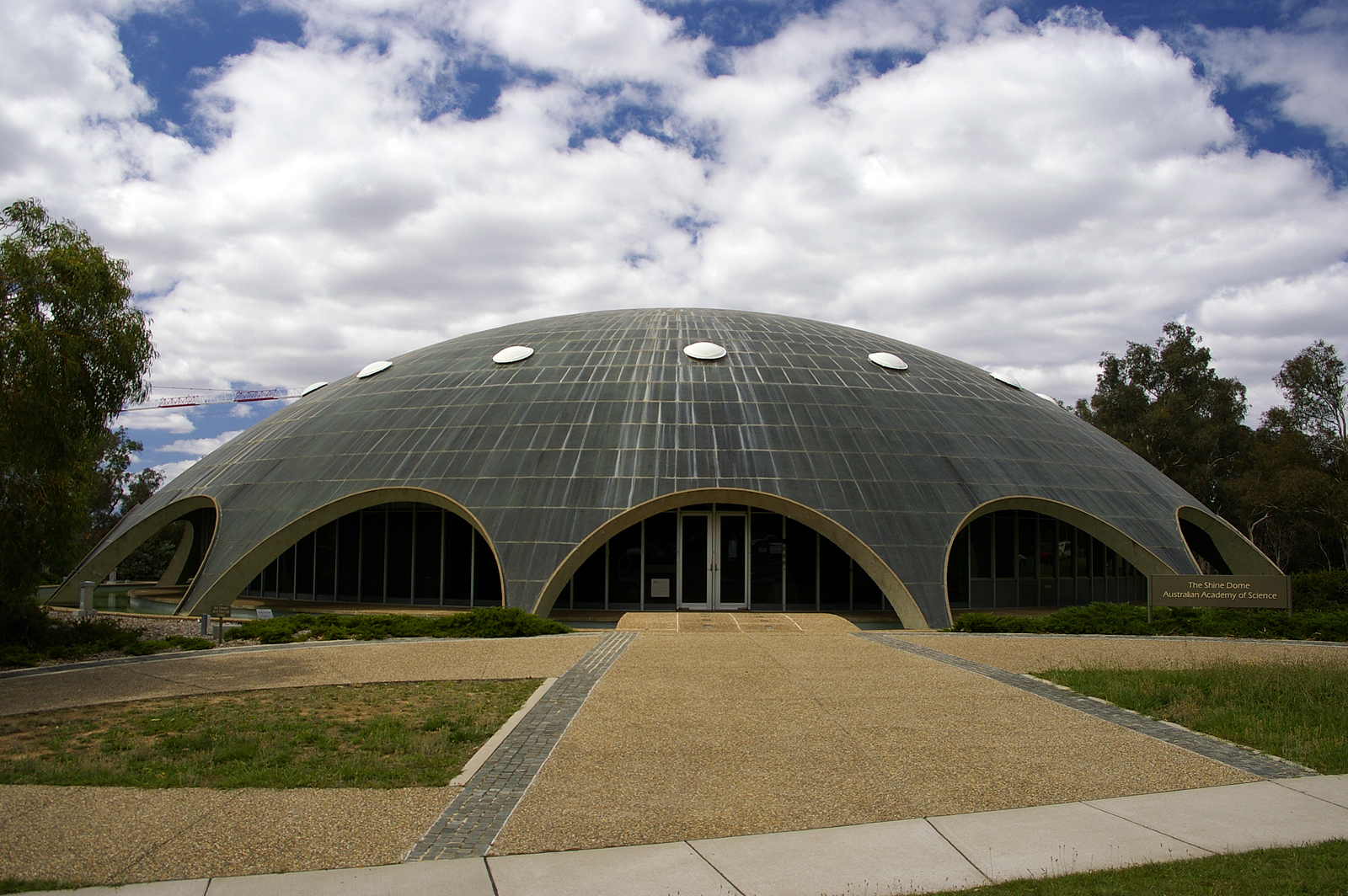 Australian Academy of Science - The Shine Dome in Canberra, Australian Capital Territory.